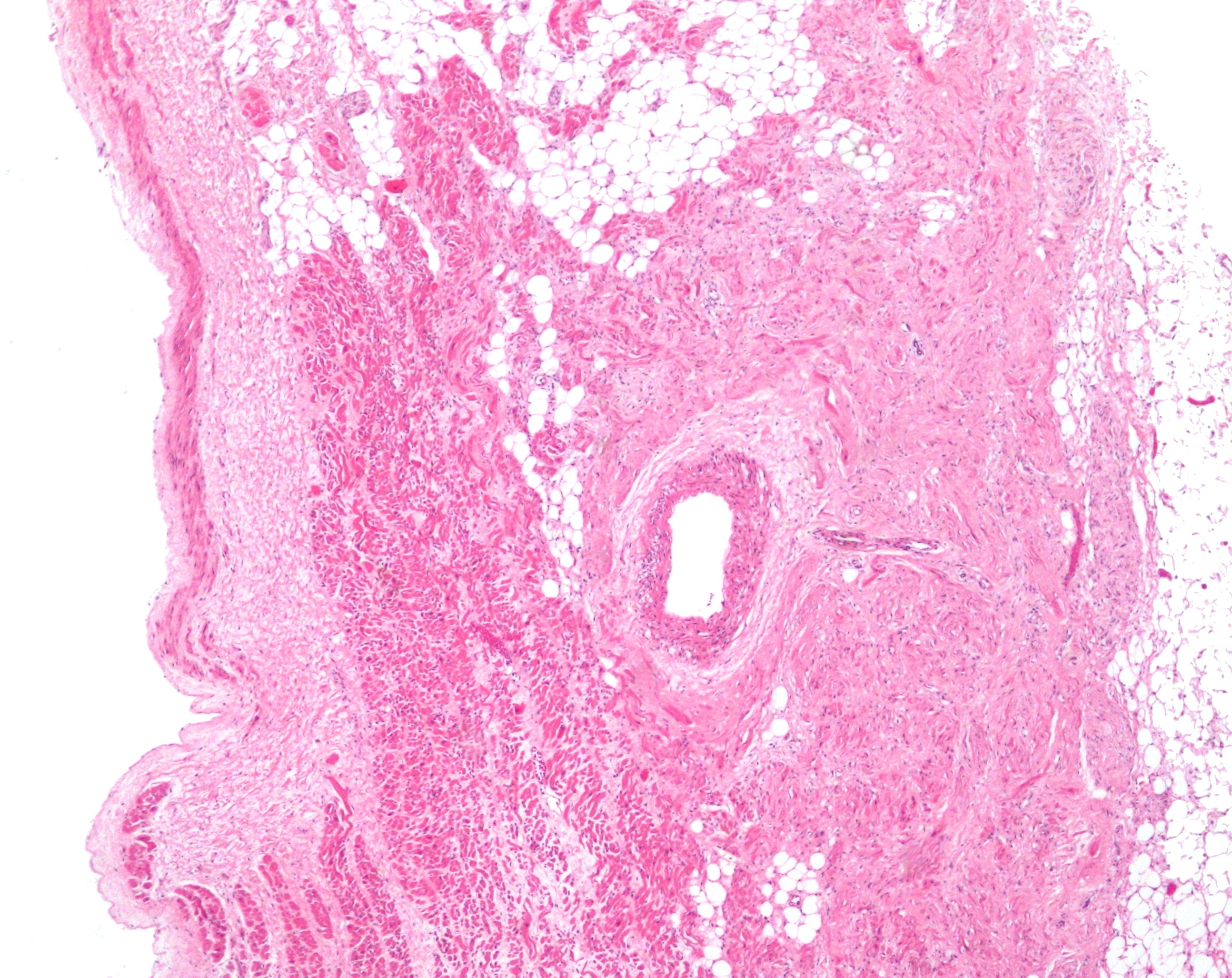 Micrograph of the sinoatrial (SA) node. H&E stain. The SA node fibre vaguely resemble cardiac myocytes; however, they are thinner, squiggly and stain less intensely (on H&E) than cardiac myocytes. Description of the micrograph - the follow things are seen: Cardiac myocytes of the right atrium are seen at the right/bottom. Nodal artery, a branch of the right coronary artery is seen in the centre - on lumen. Sinoatrial node surrounds the nodal artery and abuts the darker staining cardiac myocytes. Lumen of the right atrium is on the left (endothelial lining not seen). Epicardial apidose tissue is to the right of the SA node. Epicardial space is on the right of the image. Adjacent to nodal tissue is a nerve; the SA node interacts with fibres from the vagus nerve. Related images High mag. image of the same SA node. Low mag. image of the same SA node.